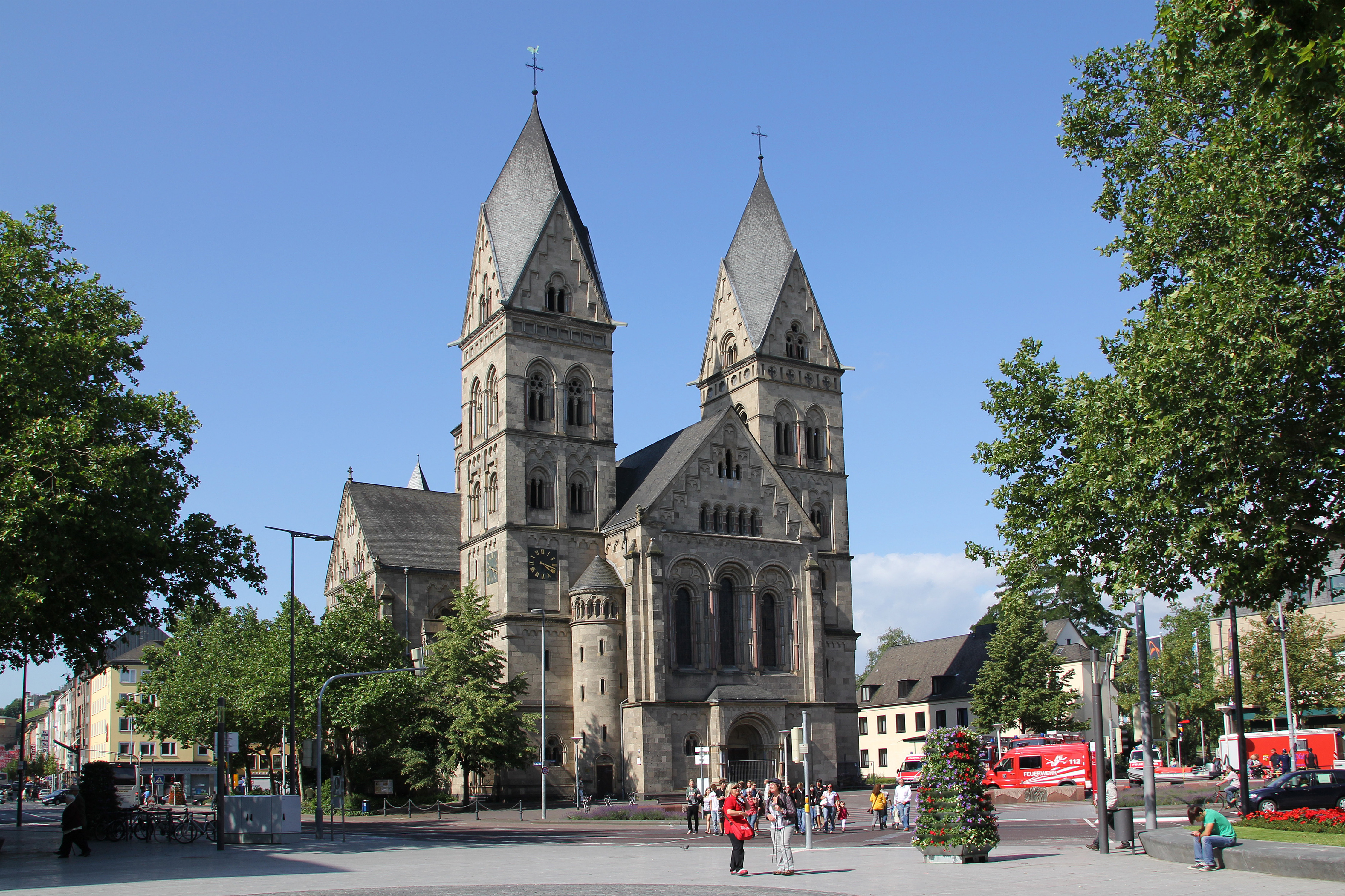 Herz-Jesu-Kirche in Koblenz